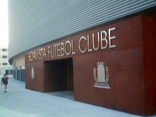 Estádio do Bessa photo, taken by wS by May 2004